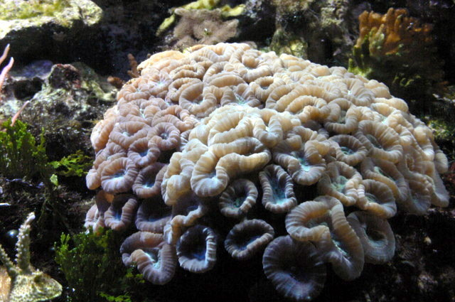 Caulastrea sp. Photo taken by User:Haplochromis